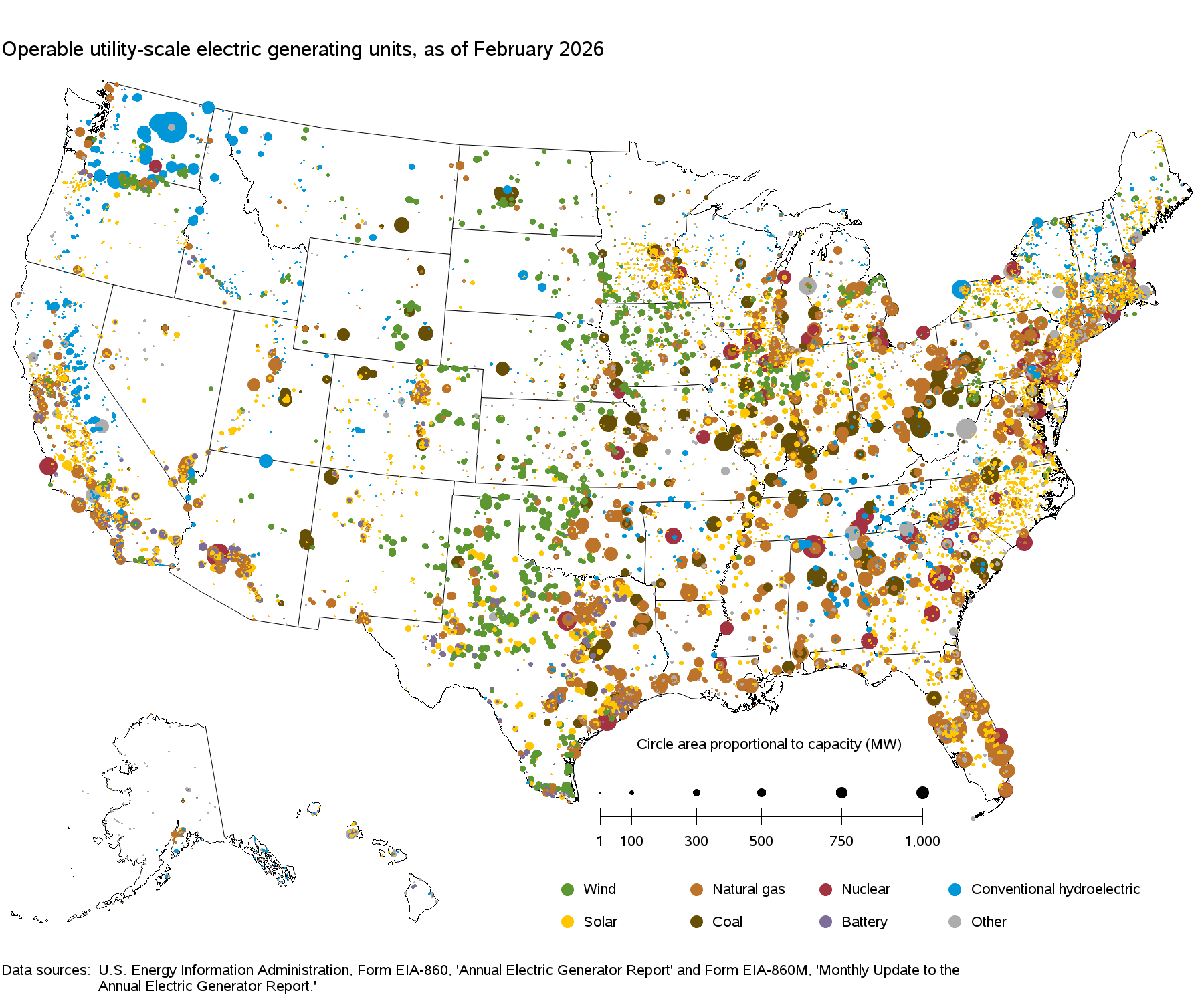 Power plants map of the United States in December 2018